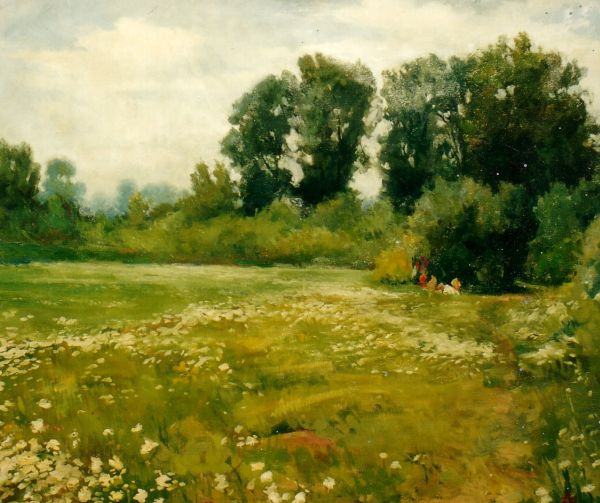 Riverside of the Someș